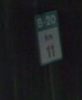 B-20 km.11